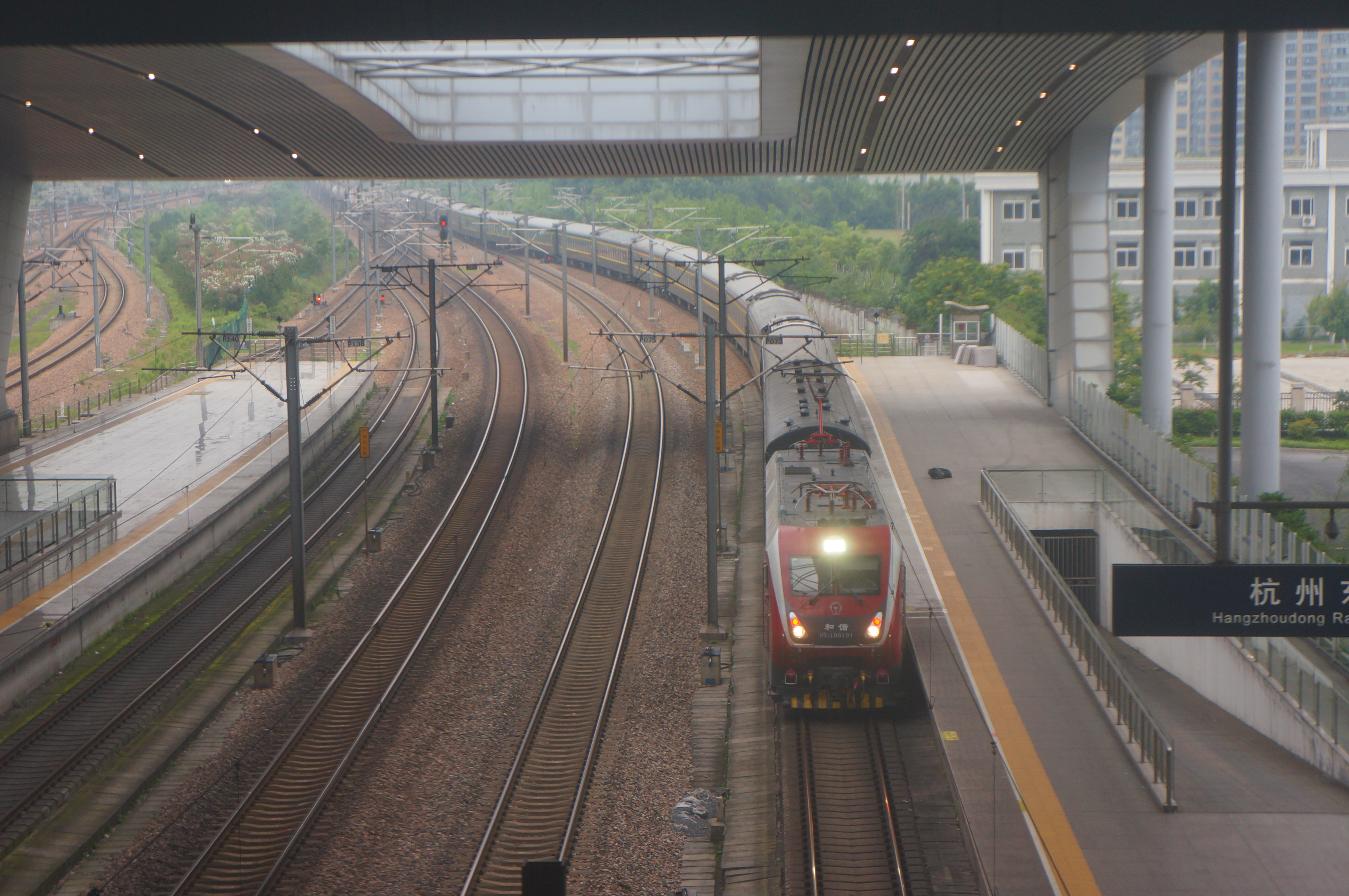 201806 HXD1D-0191 hauls K253 at Hangzhoudong Station